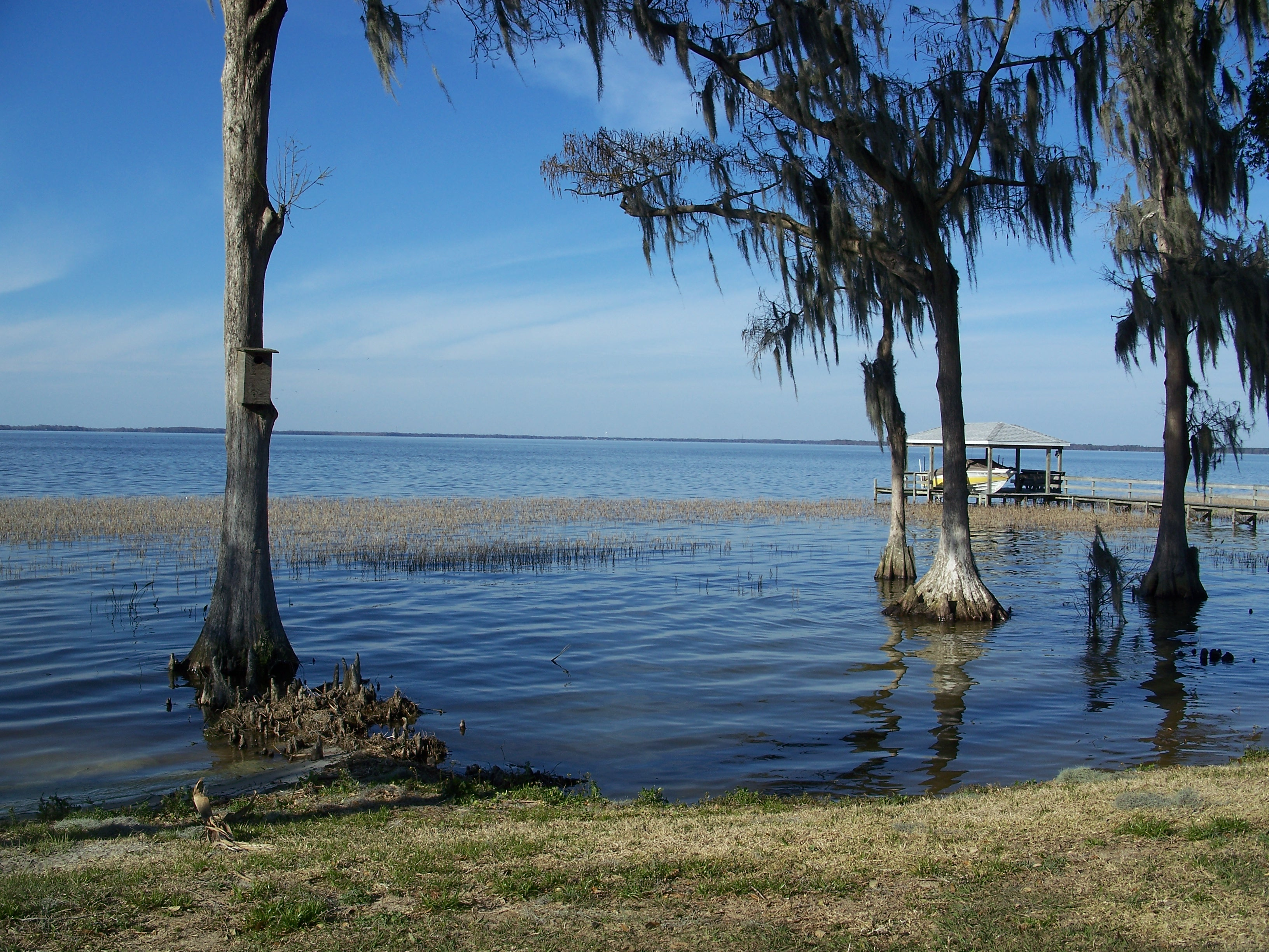 Yalaha, Florida: Southern shore of Lake Harris